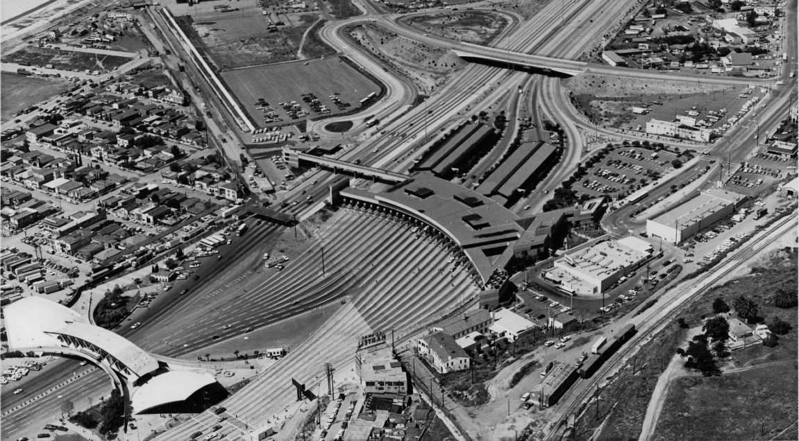 Aerial view of border crossing at San Ysidro. U.S. Custom House (San Ysidro, California) is in lower center.